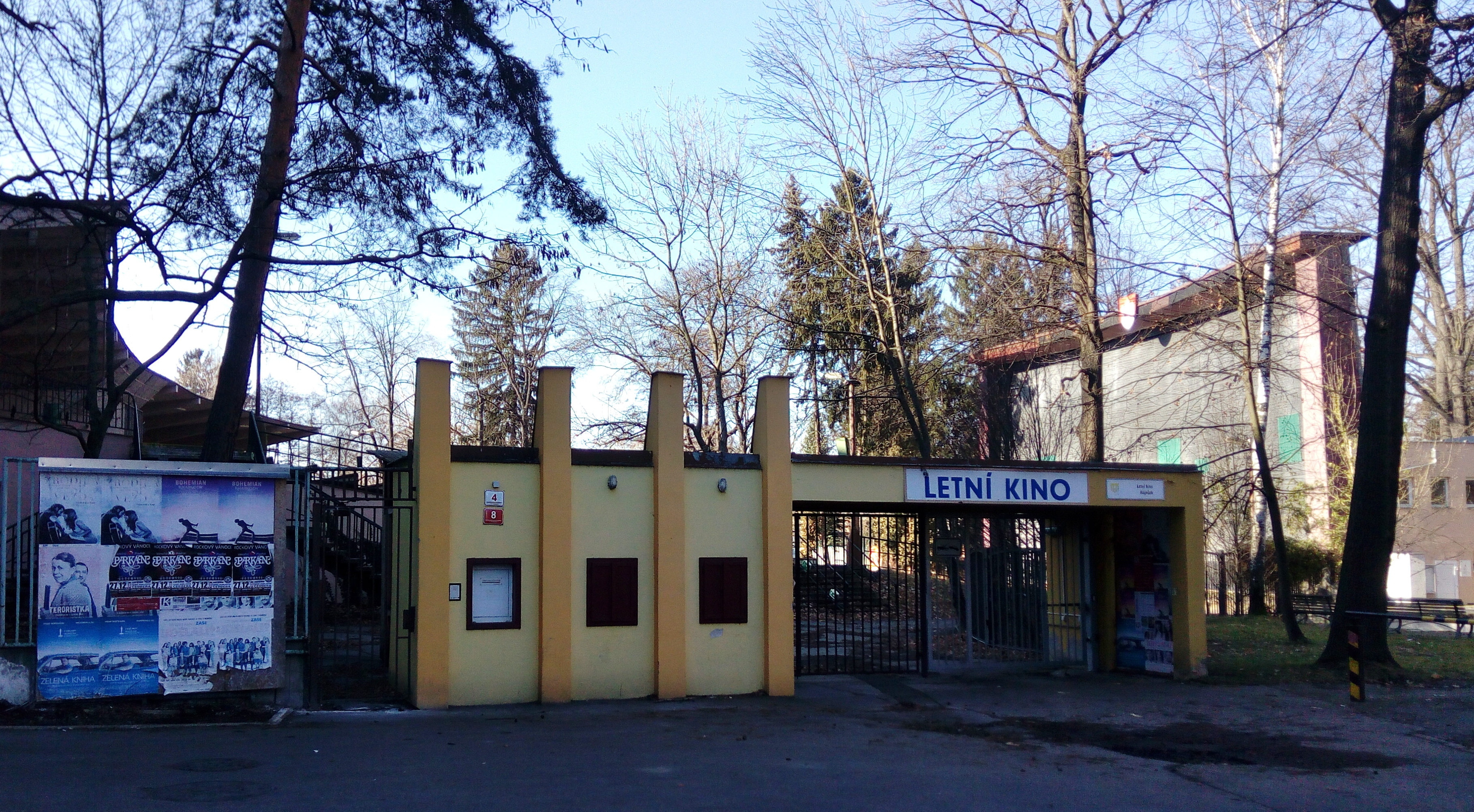 Open air cinema in Háječek, České Budějovice, Czechia